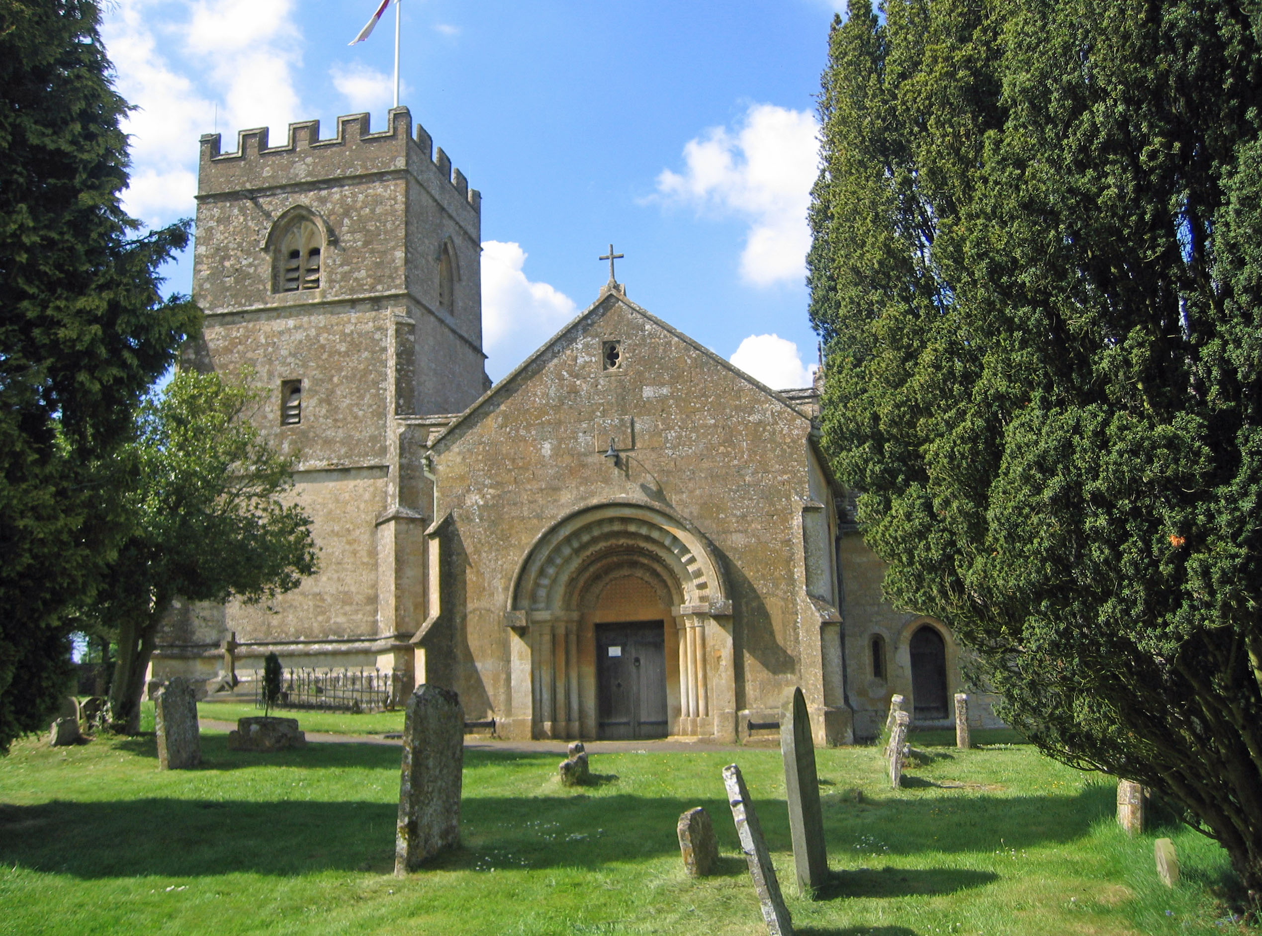 Photograph of St Michael and All Angels Church, Guiting Power, Gloucestershire, England, from the south